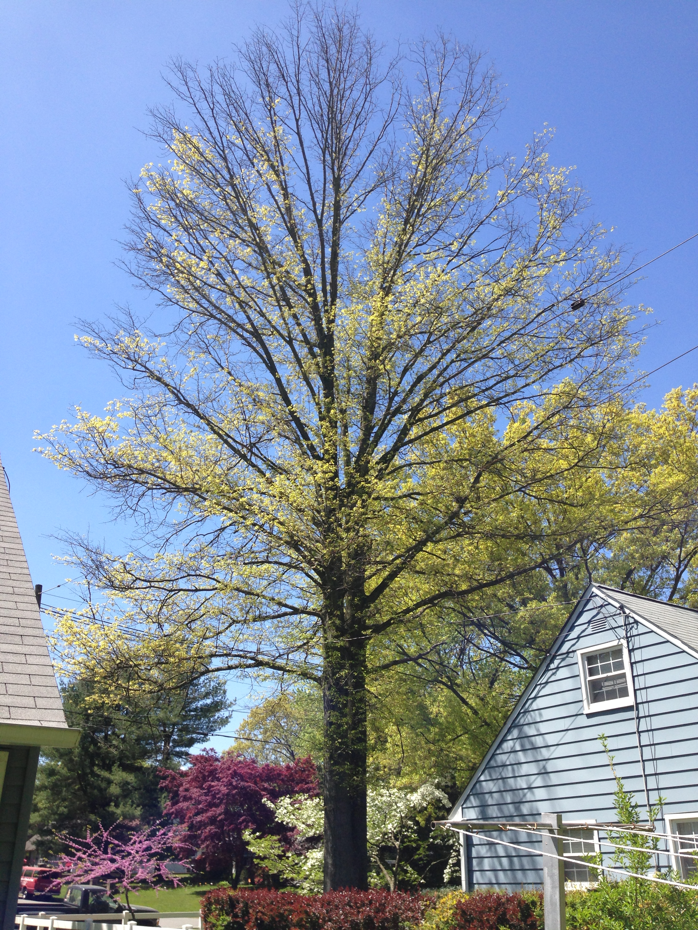 Large Pin Oak (Quercus palustris) stricken with bacterial leaf scorch during leaf-out near the house at 988 Terrace Boulevard in Ewing, New Jersey